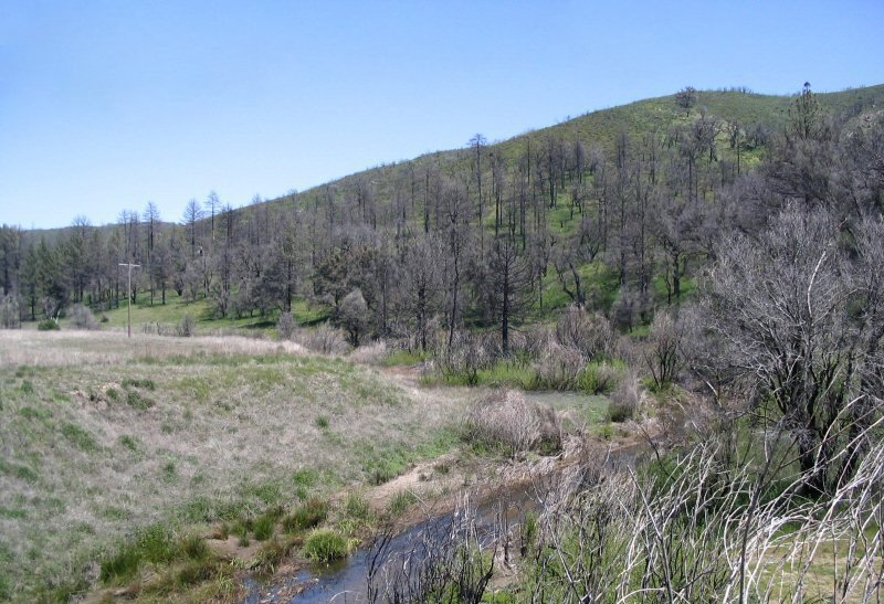 Sweetwater River, just upstream from State Highway 79 in Cuyamaca Rancho State Park. Photo taken two years after the 2003 Cedar Fire. Located in the Laguna Mountains of San Diego County, California.